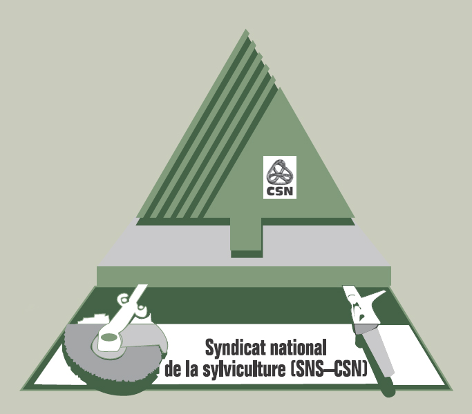 SNS-CSN logo